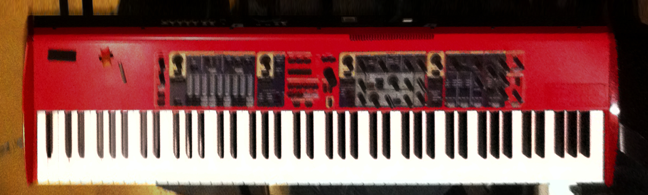 Clavia Nord Stage 88 ... debranded (because I'm neurotic!) “This weekend's "olden days" keyboard rig.”